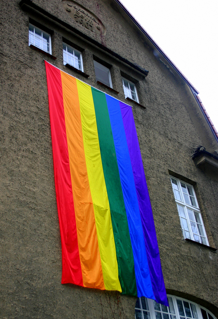 Big rainbow flag hanging on side of building